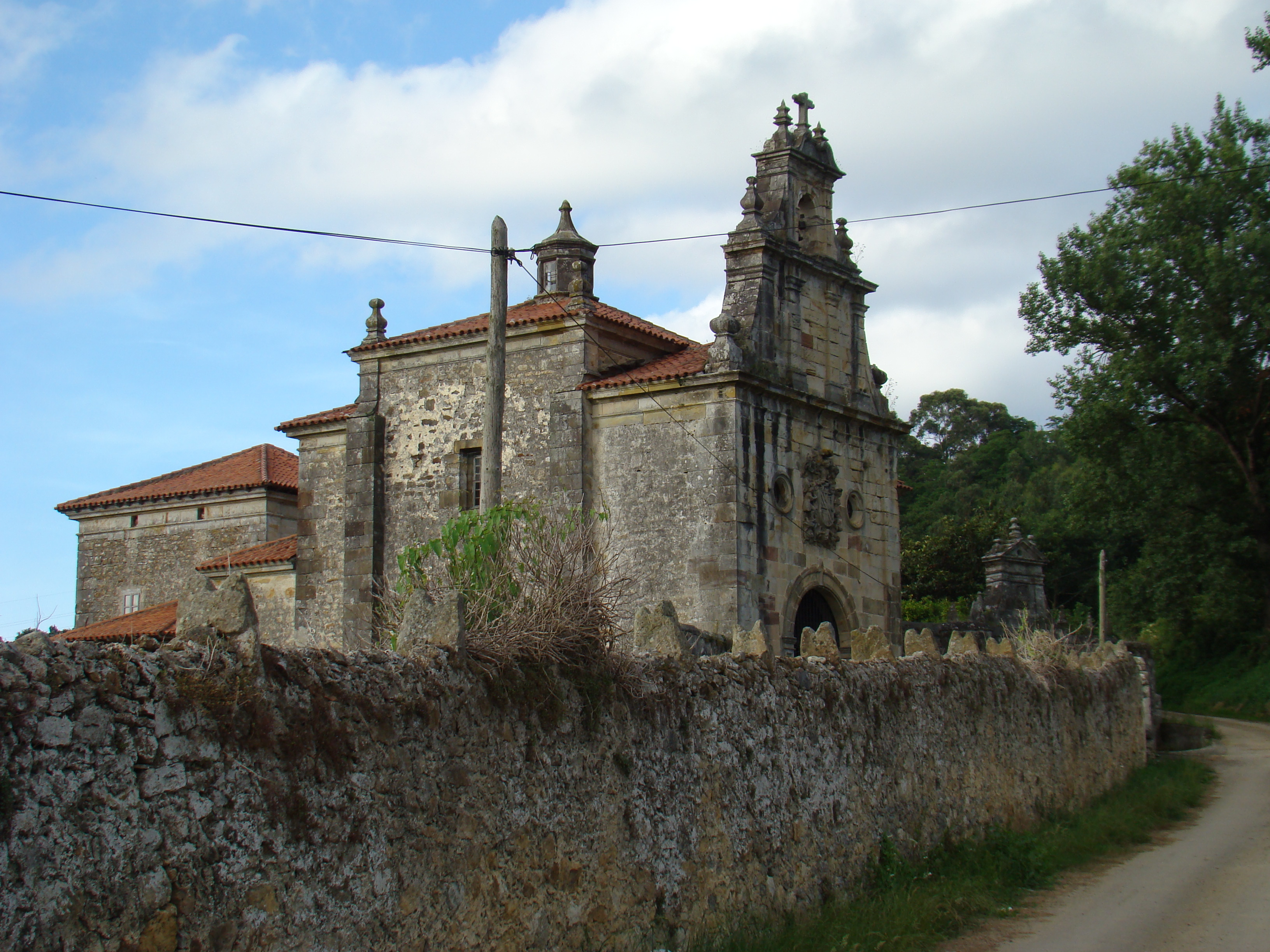 Bárcena de Cicero (Cantabria, Spain). View of the church or chapel of Carmen belonging to the noble house of Lorenzo de Rugama. It is a palace built for Lorenzo de Rugama in the middle of the 18th century which consists of tower-house and a chapel-pantheon consagrated to the Virgin of Carmen.